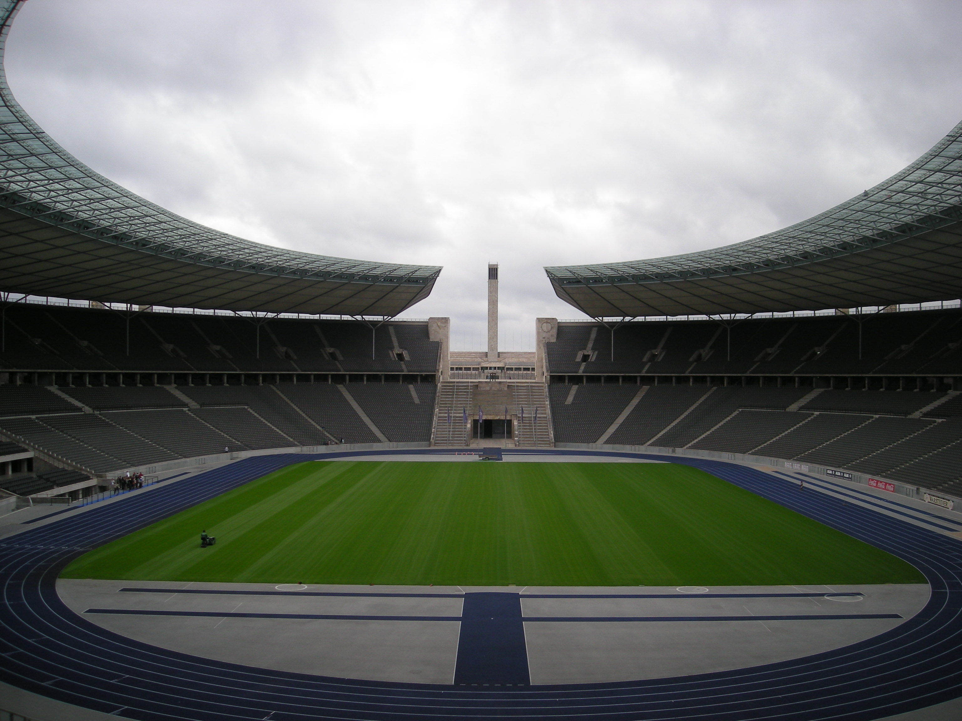 Interior of the Olympiastadion in Berlin (Germany).